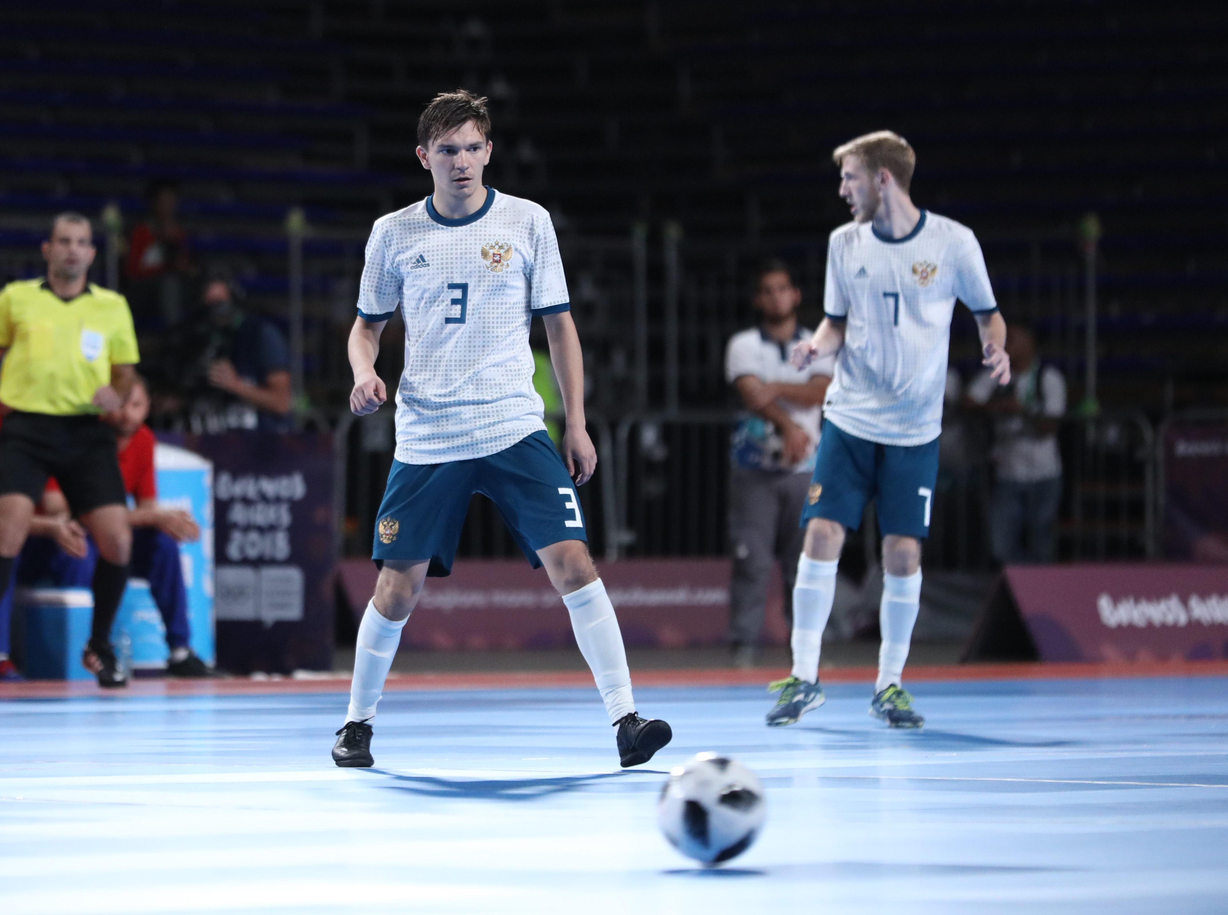 Futsal, Boys First Round: Russia vs. Brazil (1:6))